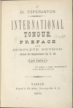 The International Language for Englishmen—the first English textbook of Esperanto